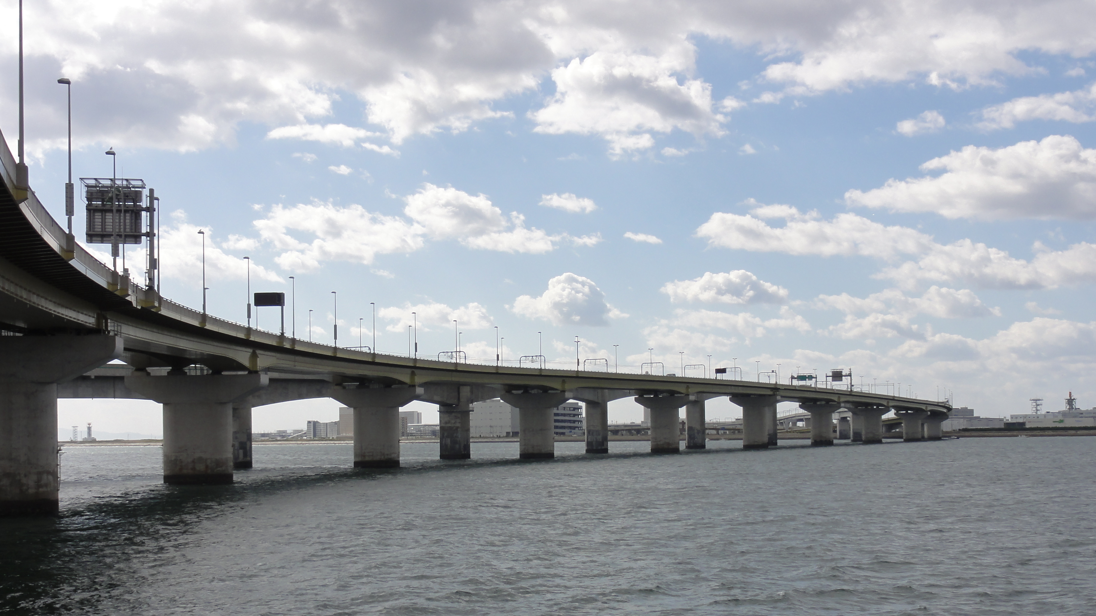 Centrair-ohashi bridge,Aichi Prefecture,Japan